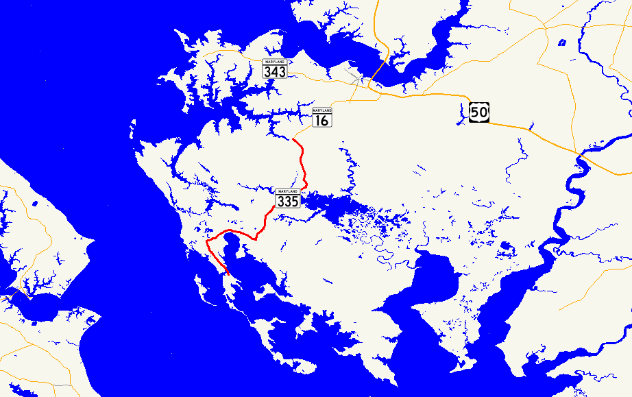 Map of Maryland Route 335